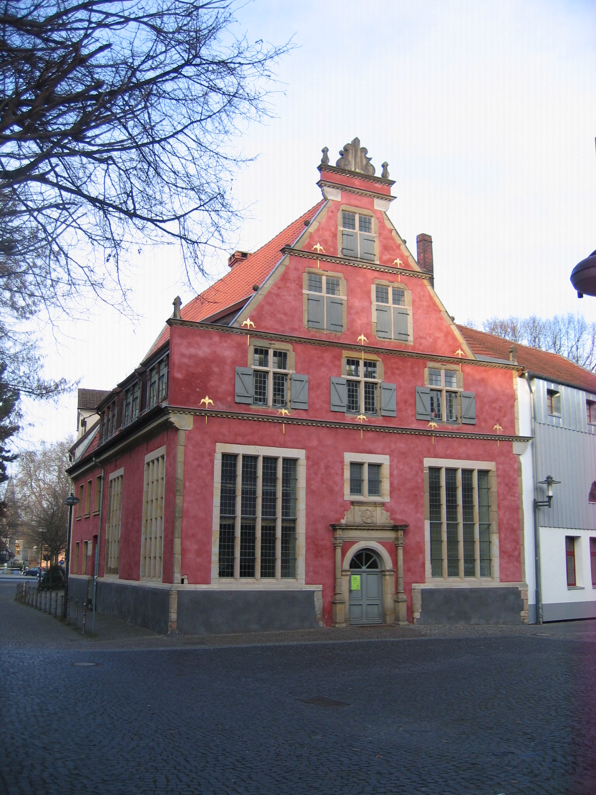 House in Herford, District of Herford, North Rhine-Westphalia, Germany.